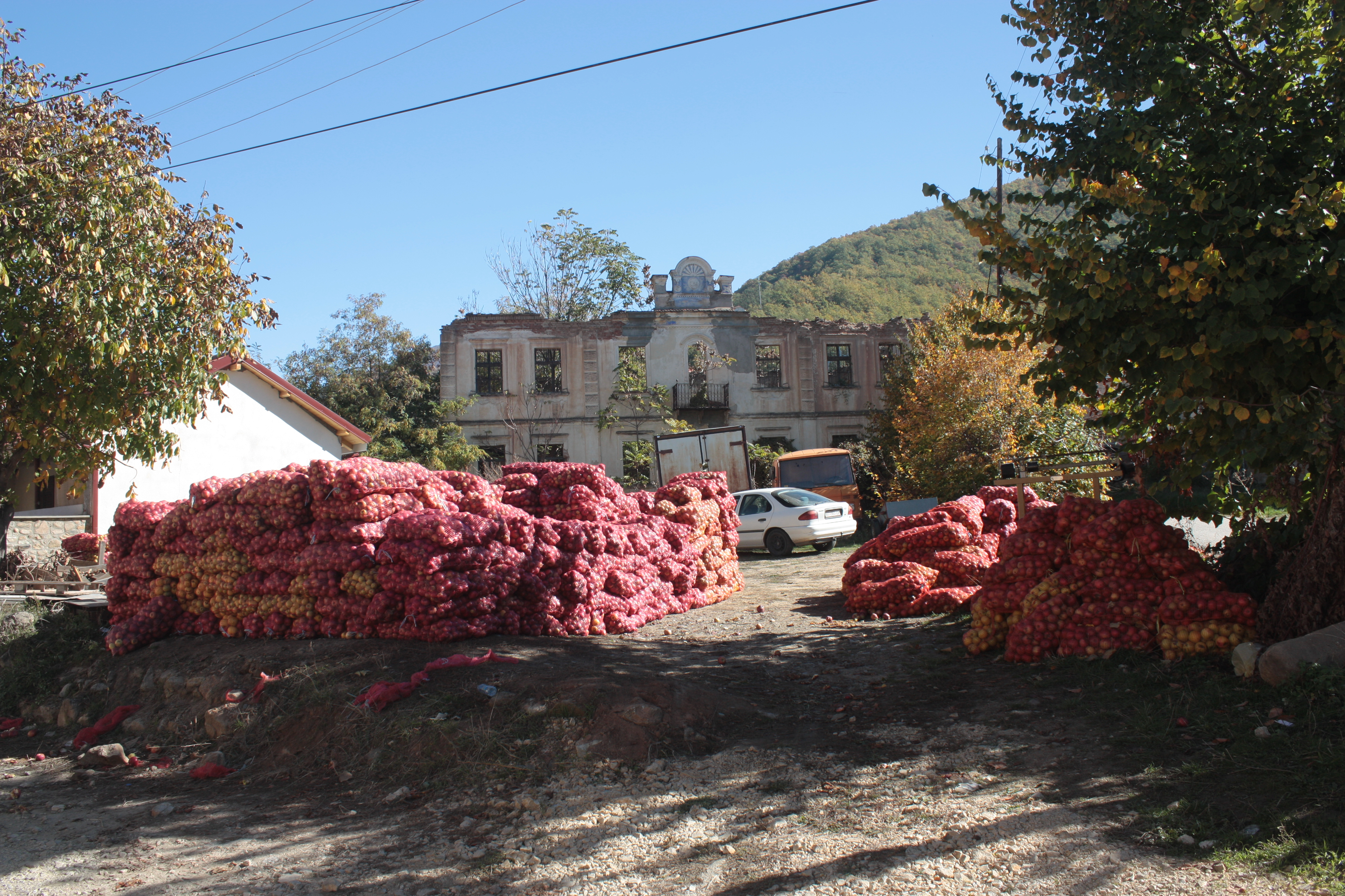 Entrance to Ljubojno